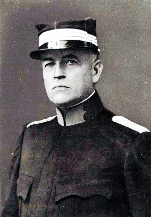 Loys, Treytorrens de (1857-1917)